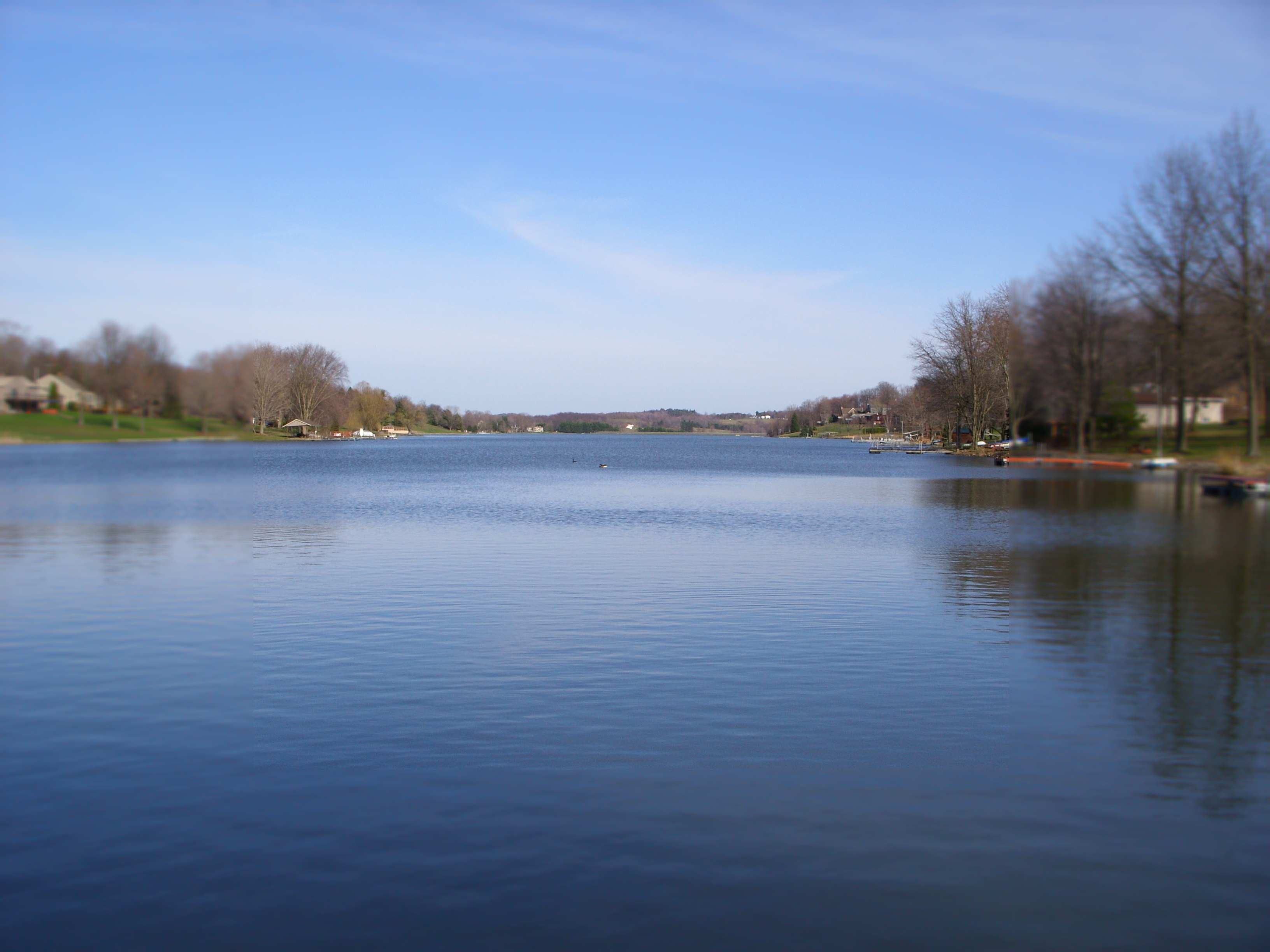 A Boaters Paradise